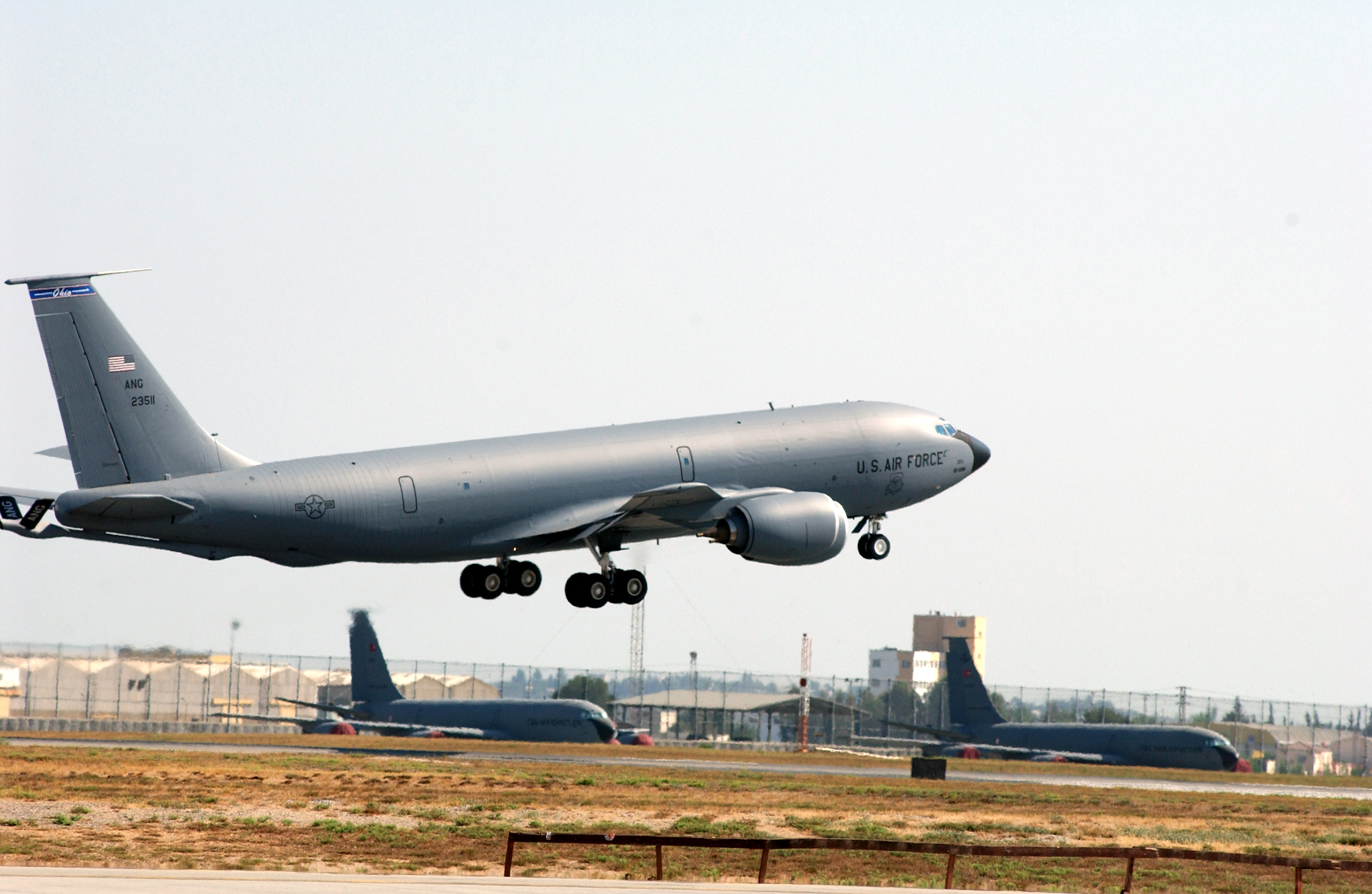 An Ohio Air National Guard KC-135R (Acft. No 62-3511) taking off from Incirlik AB